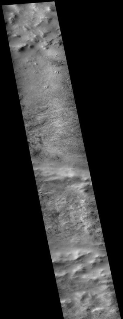 Wallace Crater floor, as seen by CTX